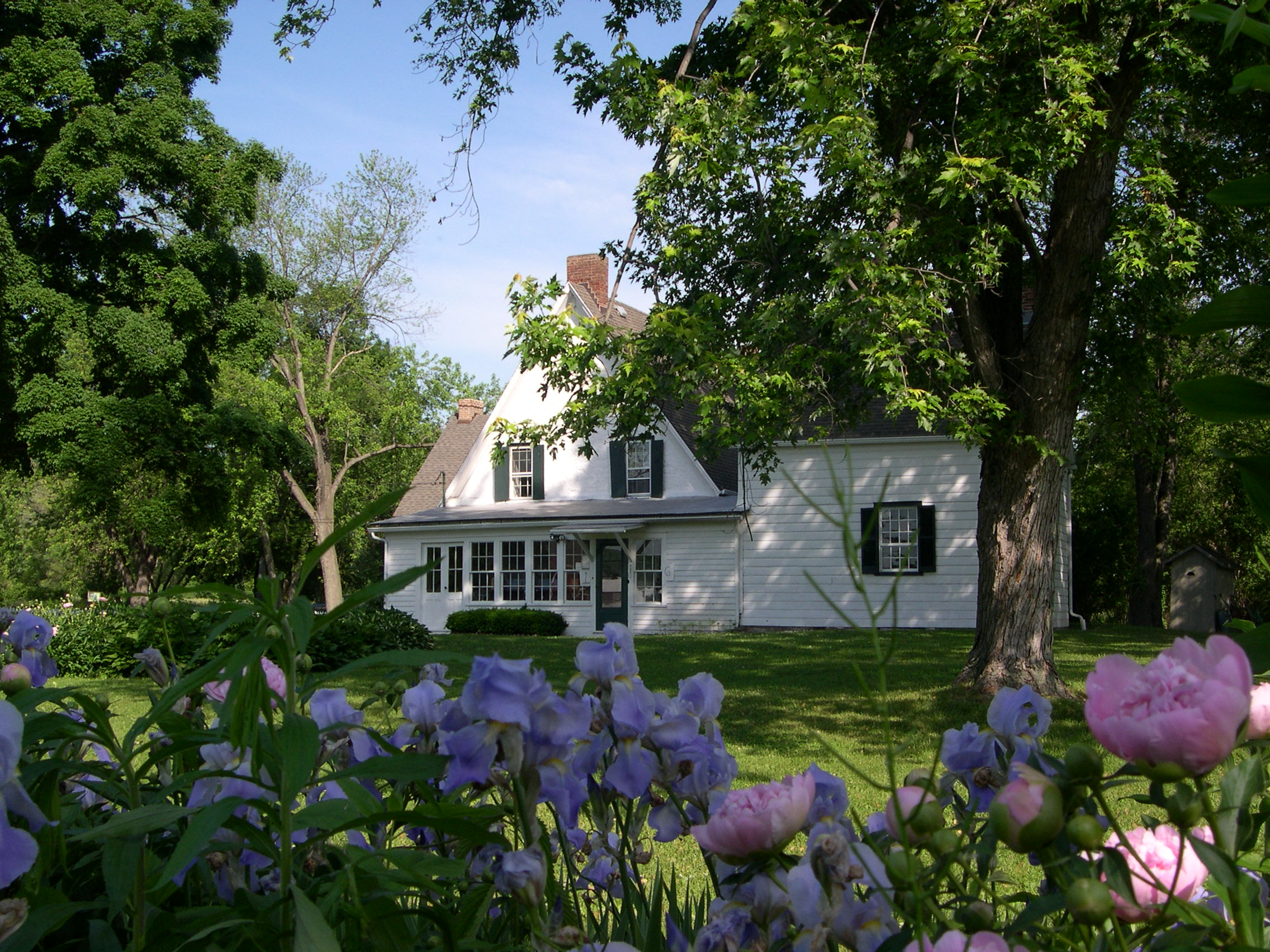 The oldest house still standing in the Mohawk Valley, the Mabee Farm Historic Site was originally settled by Daniel Janse Van Antwerpen, who established it as a fur trading post to meet Native American traders before they reached Schenectady. He received a deed for the property in 1671 from the English governor. In 1706, Van Antwerpen sold the western portion of his land to Jan Pieterse Mabee, and it was handed down through the Mabee family for 287 years! The Mabee original structures, which were donated by George E. Franchere, include the stone farmhouse, brick slaves quarters, and a frame pre-Erie Canal Inn. A family cemetary holds graves dating back to the 1700s. Replacing the barns which burnt down in the early 20th century are the 1760 Nilsen Dutch barn, which houses displays, an English barn, and several outbuildings. For more info, please visit the Mabee Farm online. Image courtesy of Schenectady County Historical Society